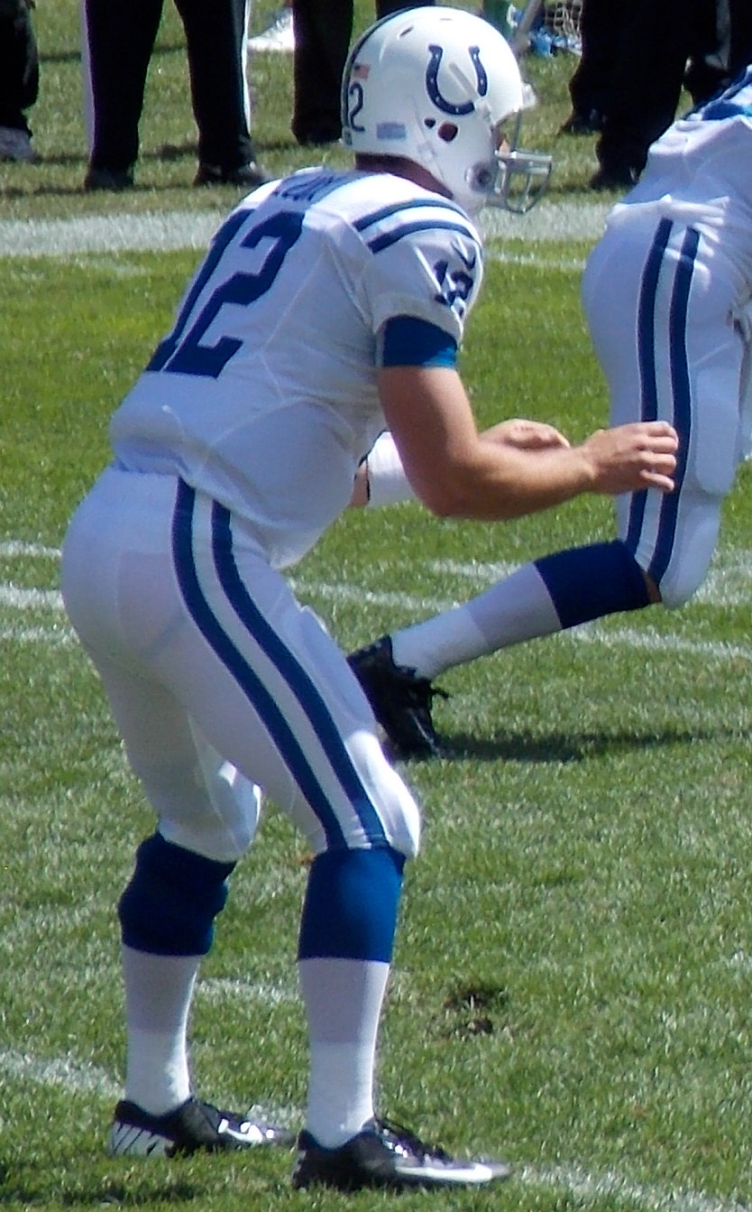 Andrew Luck of the Indianapolis Colts.